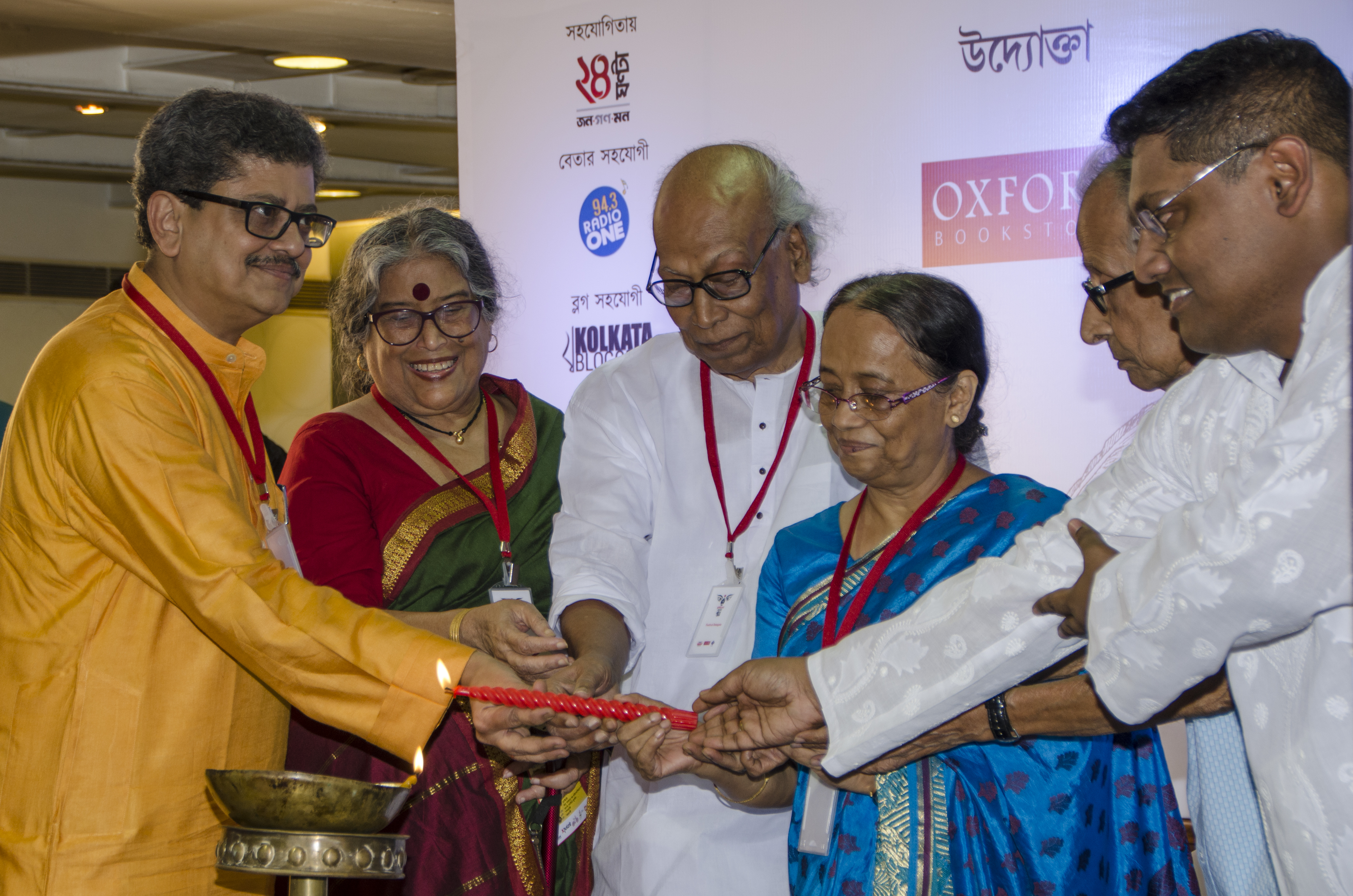 Apeejay Bangla Sahitya Utsob 2016 Inauguration Ceremony